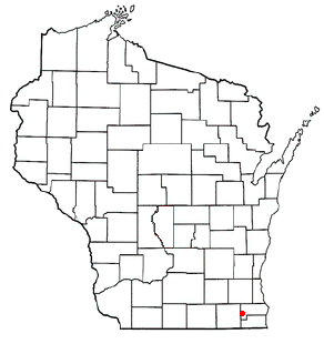 Burlington, Wisconsin locator map.